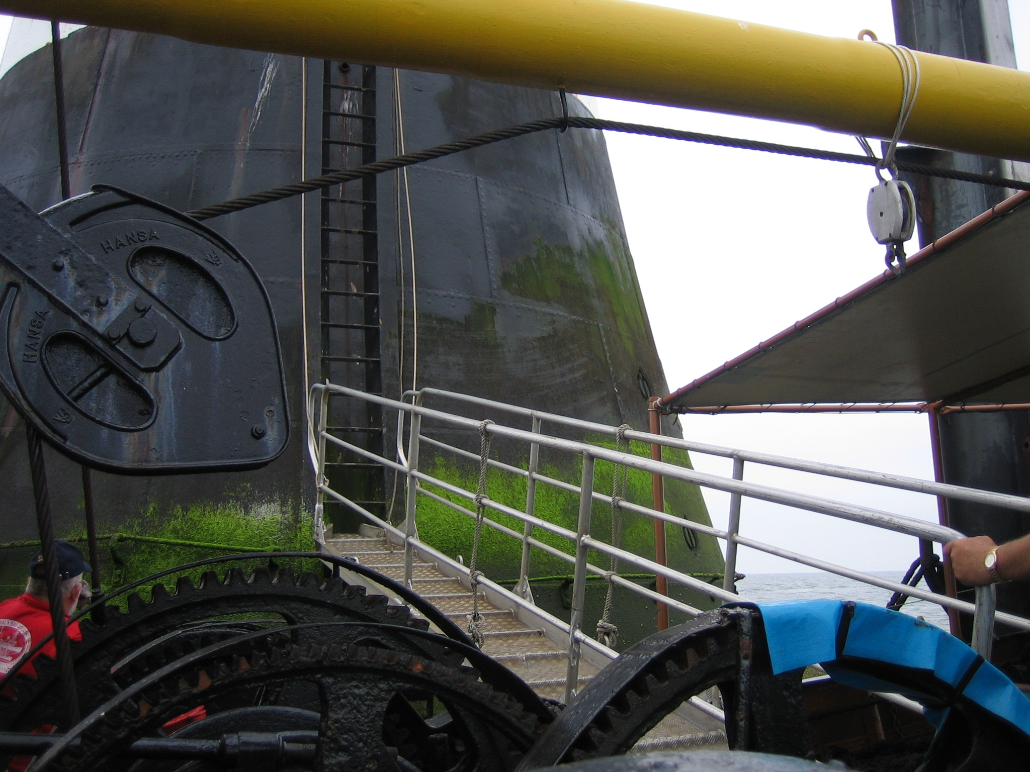 This is a self-taken picture of the lightfire Roter Sand near the german coast, near Bremerhaven. Photograph by Tim Rausch.